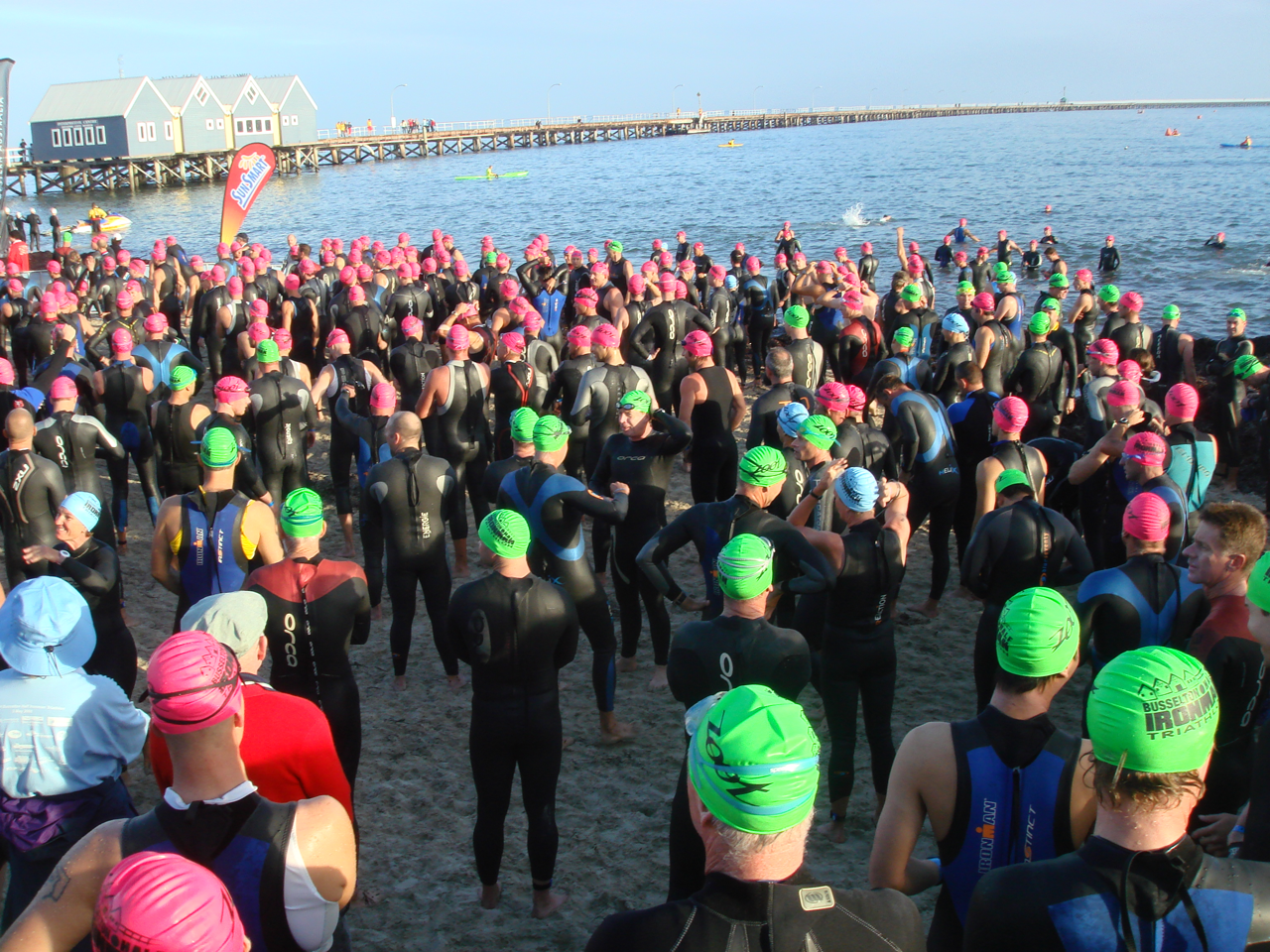 Picture is presenting triathletes gathering on beach before start to Half Ironman in Busselton, Western Australia